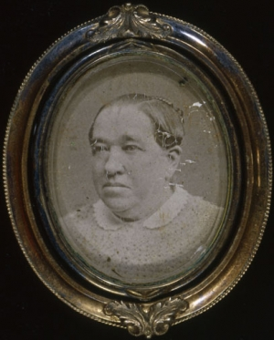 Margaret Haughery, "Saint Margaret" of New Orleans. Photo portrait.